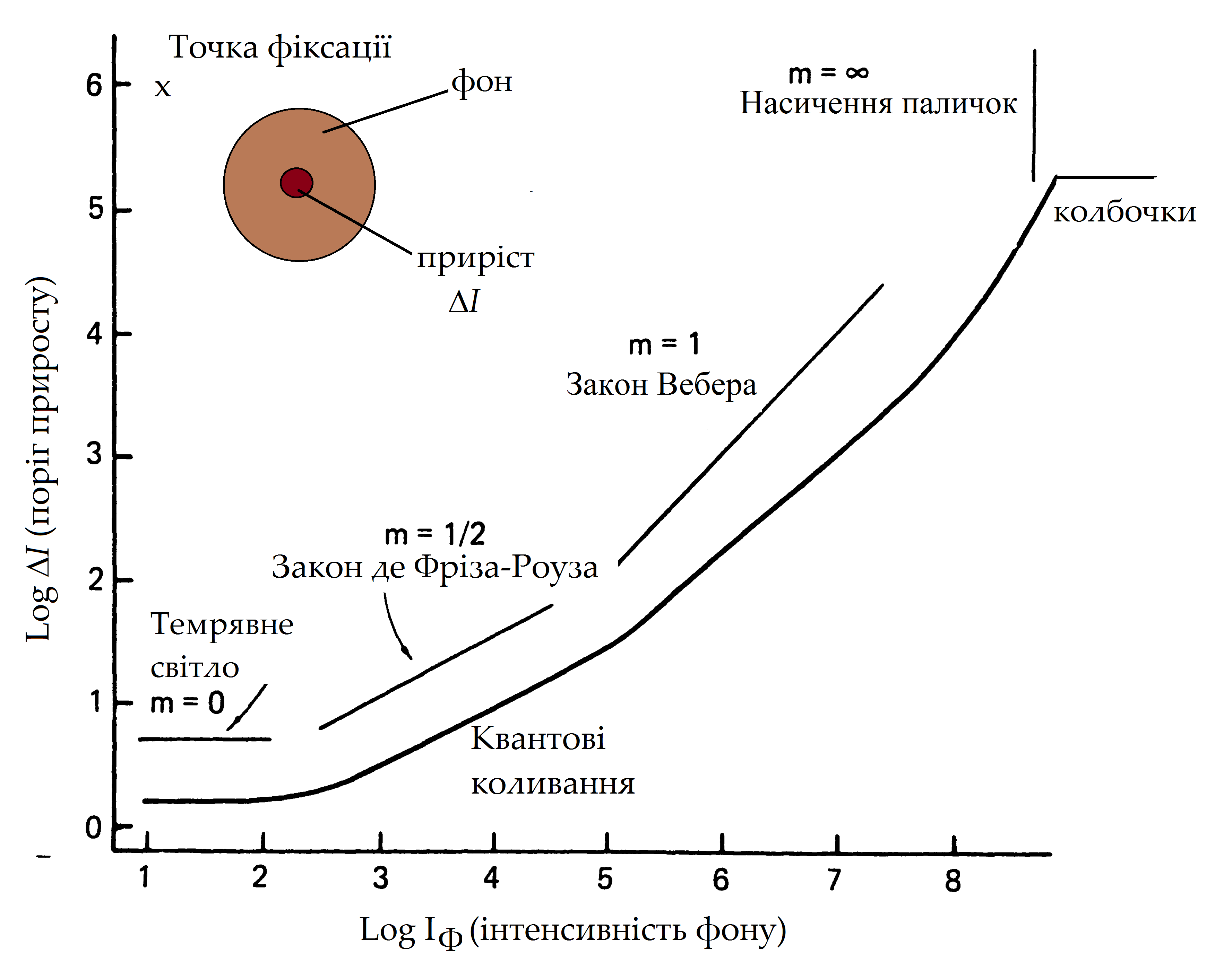 Increment treshold curve of the rod system. After H.B.Barlow "Optic nerve impulses and Weber's law"